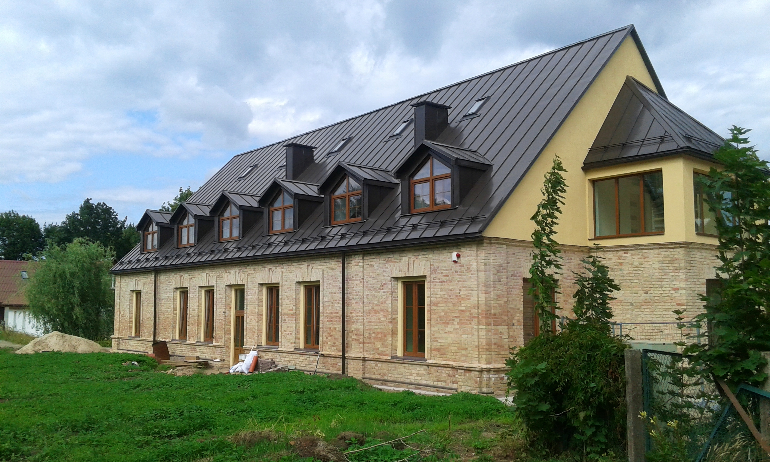 An old, late XIX c. house in Naujoji Vilnia